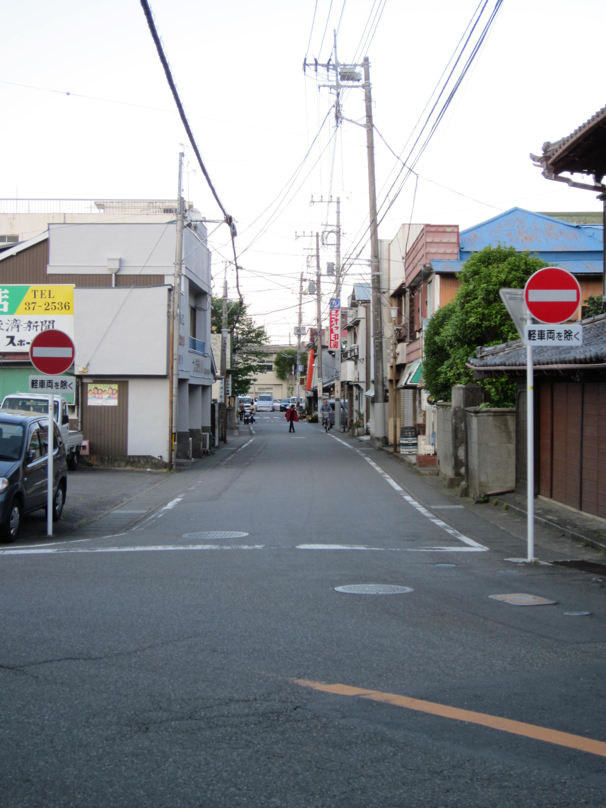 Shizuoka prefectural road route 110, Ito city, Shizuoka pref., Japan